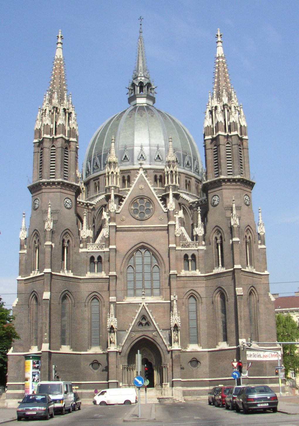 The church “Maria vom Siege” (i.e. “Mary the Victorious”) is the most prominent building at Mariahilfer Gürtel in Vienna's 15th district.